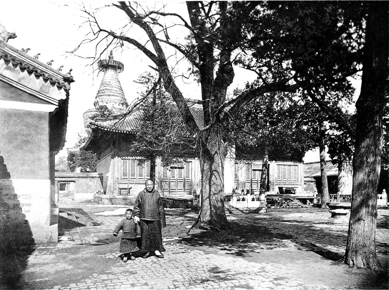 photo from Ein Tagebuch in Bildern